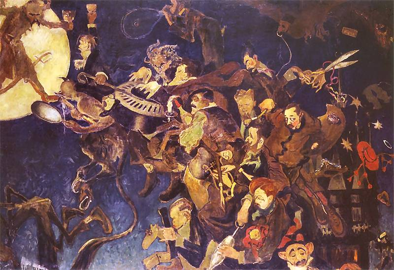 Cabaret Zielony Balonik 1908